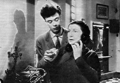 Terza liceo (Emmer 1954): Franco Santori con Paola Borboni, una tra i pochi professionisti impiegati nel film